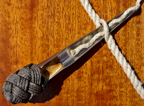 Way to use a hollow or Swedish fid.